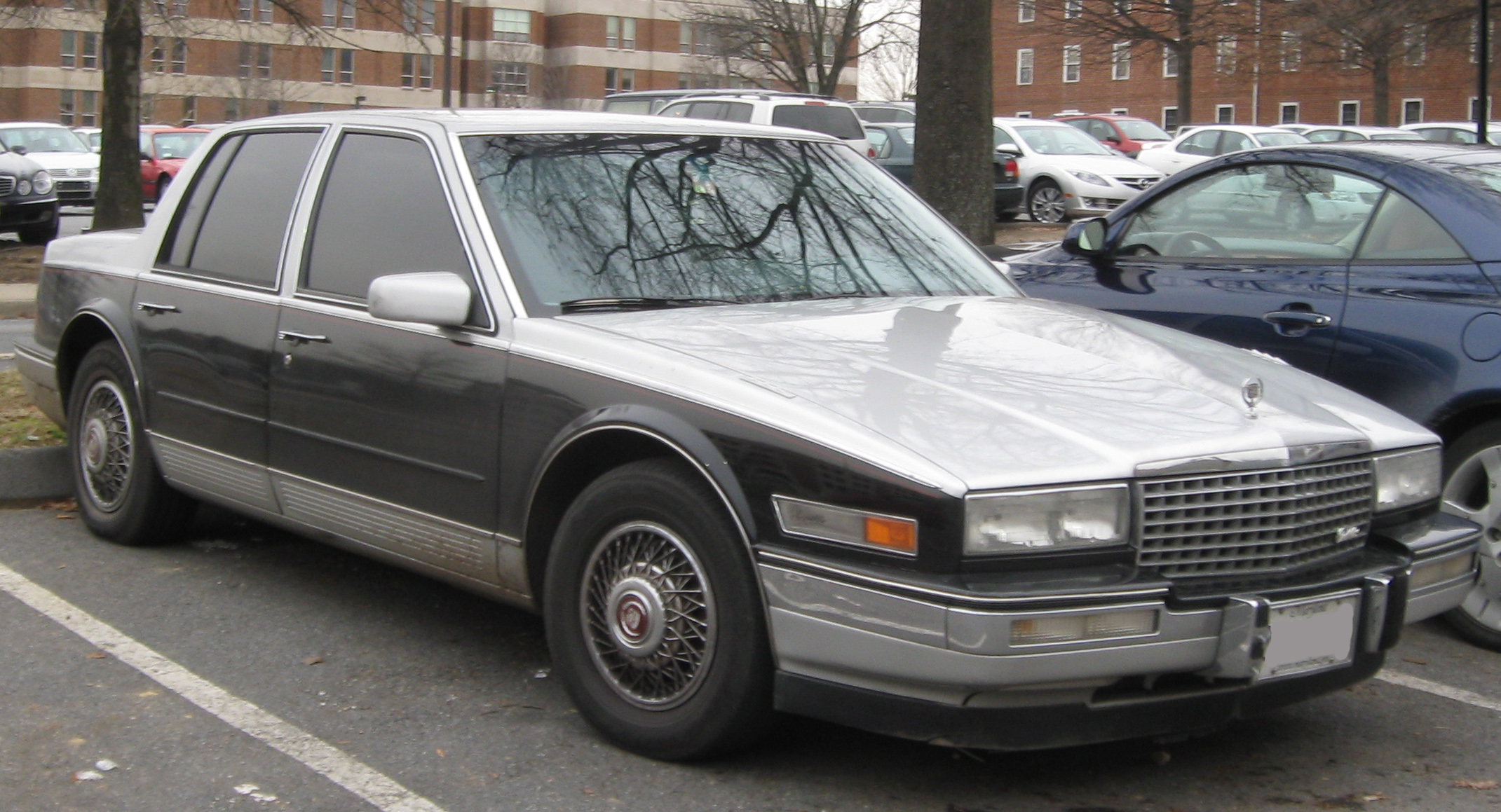 1986-1988 Cadillac Seville photographed in College Park, Maryland, USA.